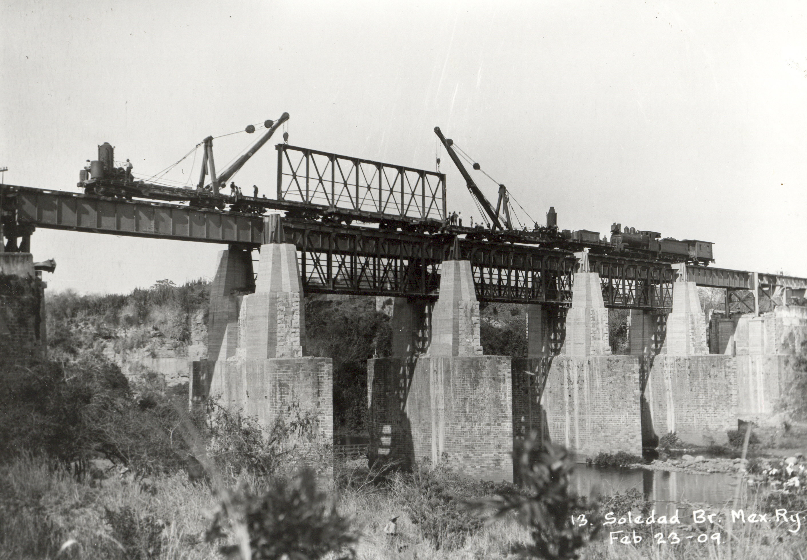 "La Soledad" Bridge (February 23, 1909). This road and rail bridge spans the Jamapa River near Soledad de Doblado, Veracruz at Object location19° 02′ 36.89″ N, 96° 25′ 42.07″ W